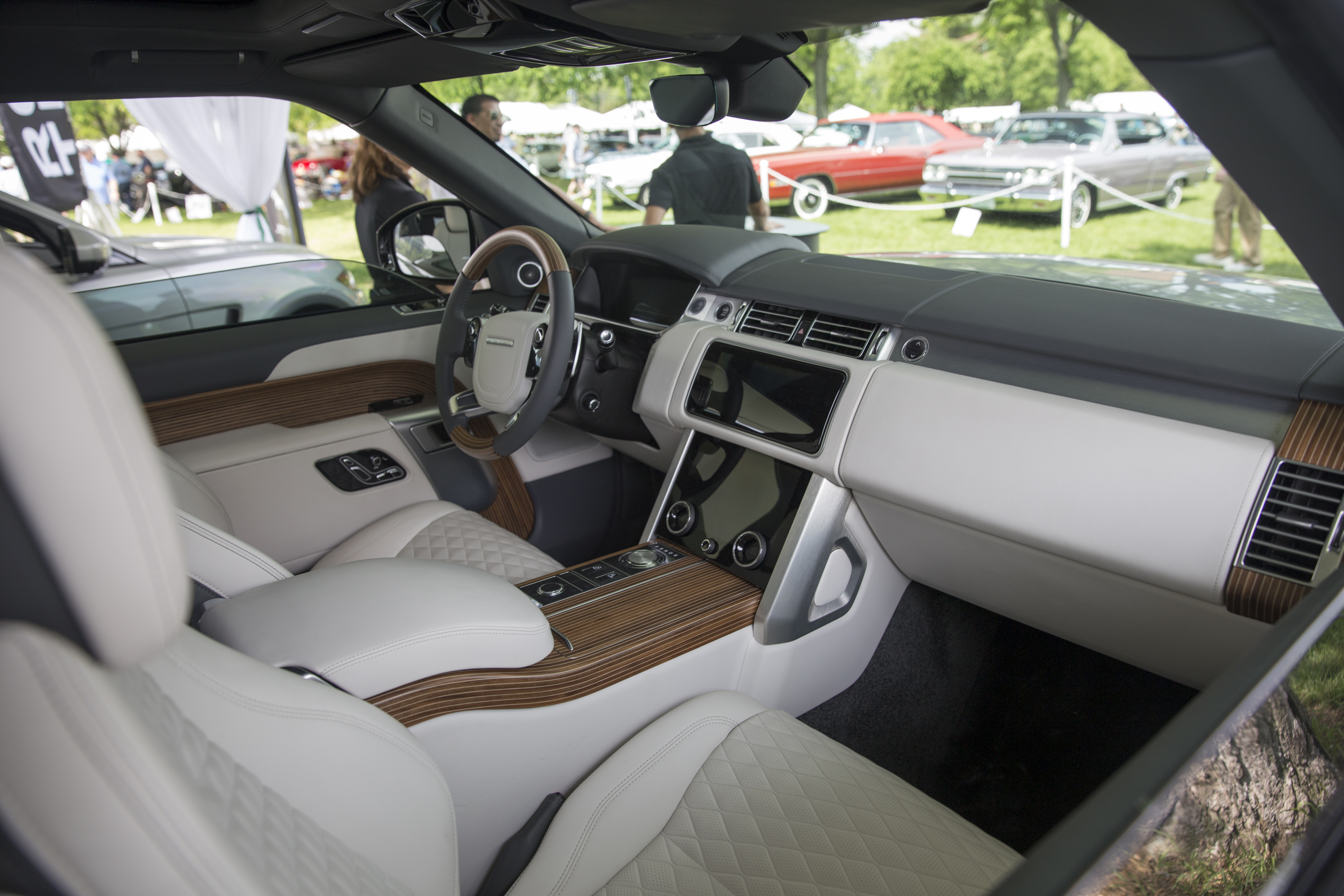 2019 Range Rover SV Coupé displayed at the 2018 Greenwich Concours d'Elegance. Pretty posh in here.